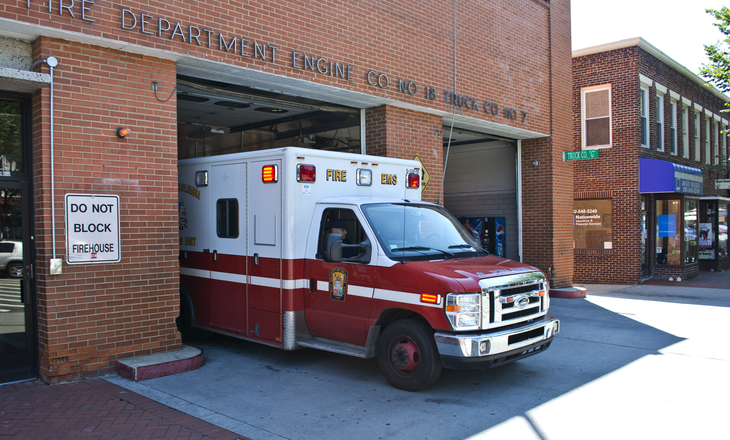 Ambulance 18 races to respond to a medical emergency from the station housing Truck Company G on 8th Street SE in Washington, D.C., in the United States. Truck Co. G is a unit of the D.C. Fire and Emergency Medical Services Department, and consists of Engine 18, Ladder Truck 7, and Ambulance 18.